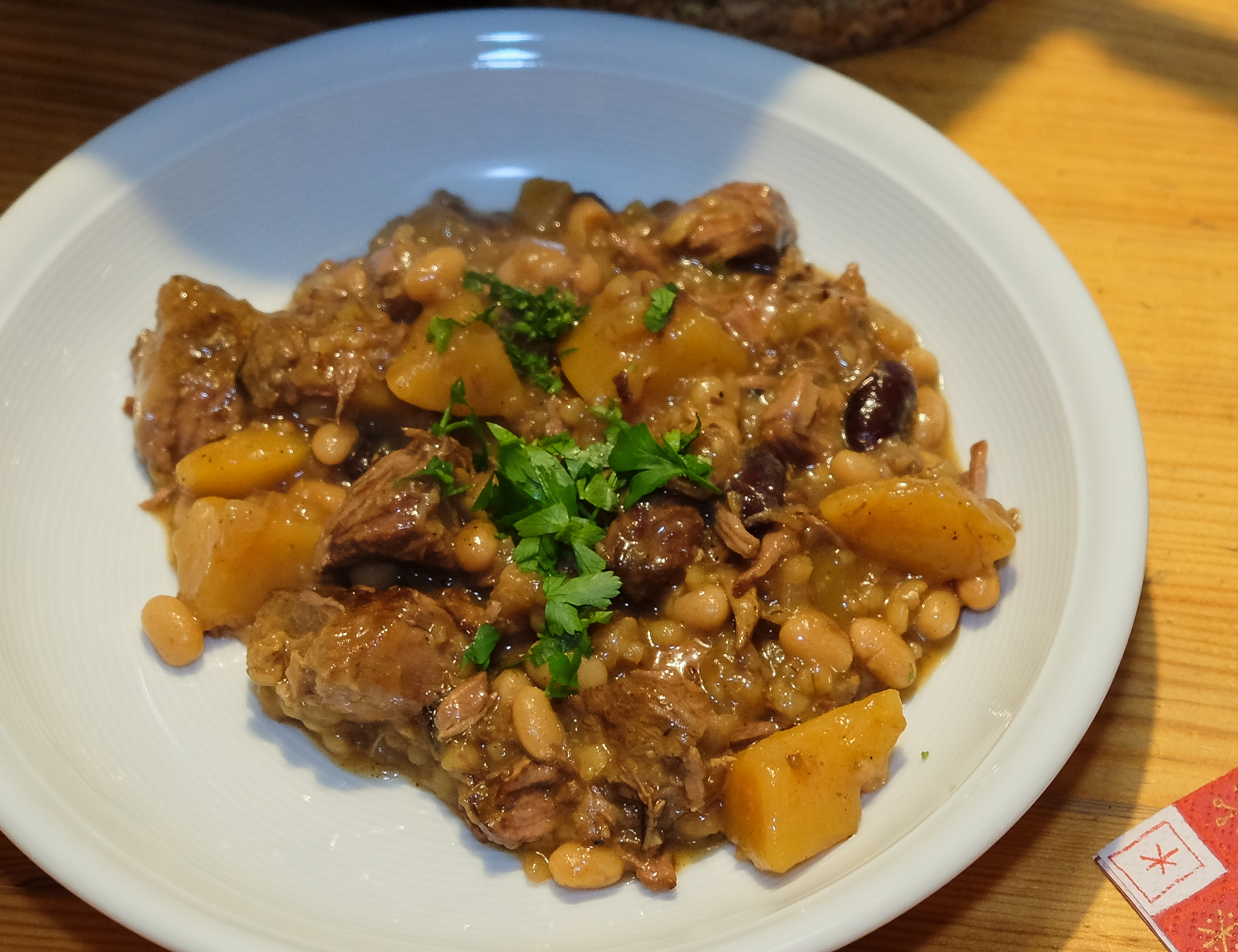 Cholent, a slow-cooked shabbat stew